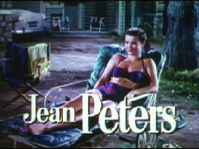 Jean Peters is introduced in the theatrical trailer of the 1953 film Niagara directed by Henry Hathaway.